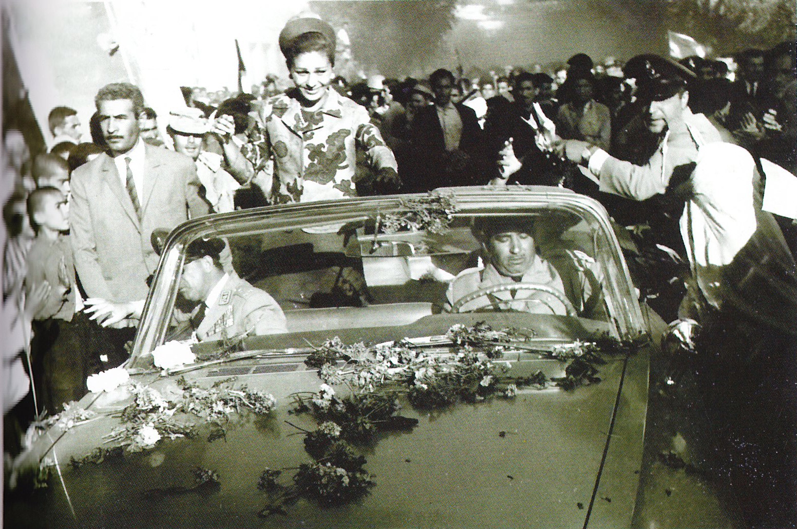 Shahbanu Farah Pahlavi, visiting Gharaveh, Iran